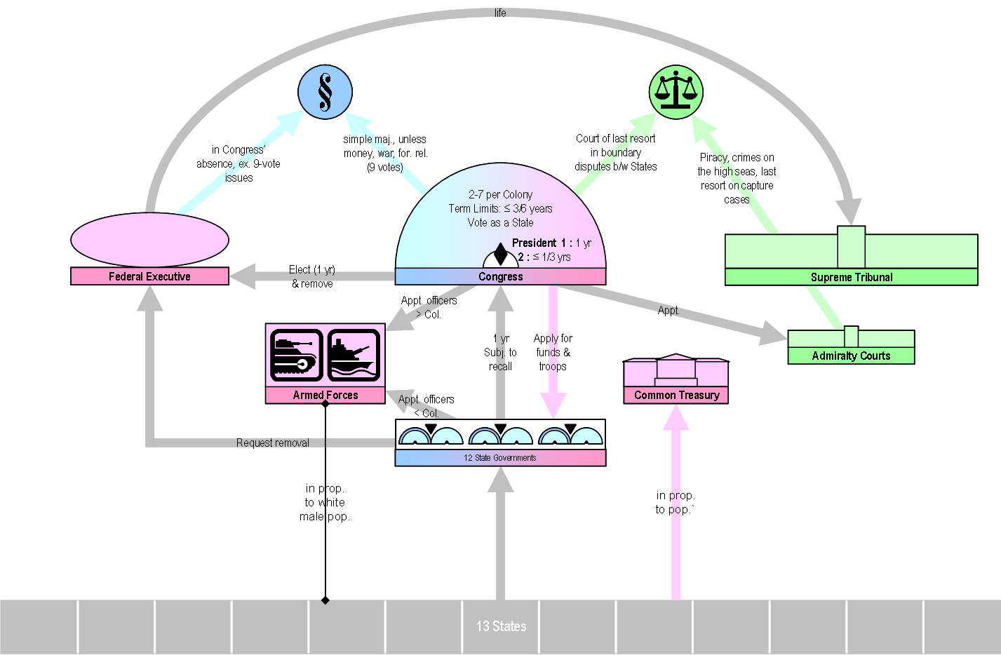 A diagram of the New Jersey Plan presented at the Constitutional Convention in the United States in 1787.